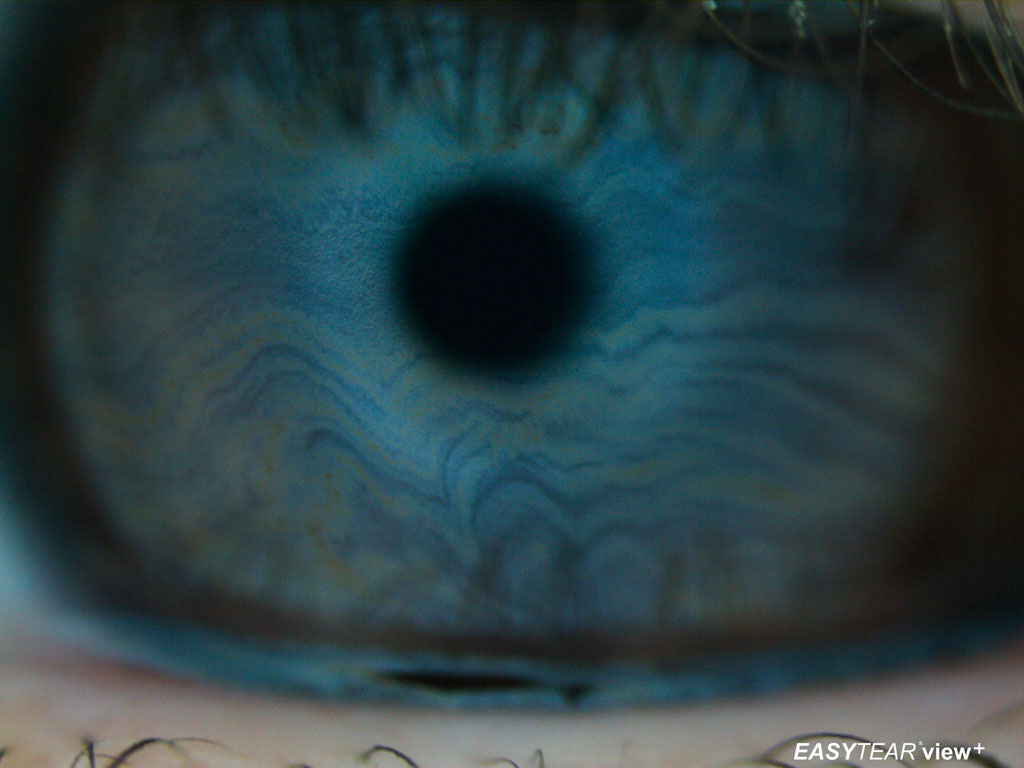 Pattern lipidico 4